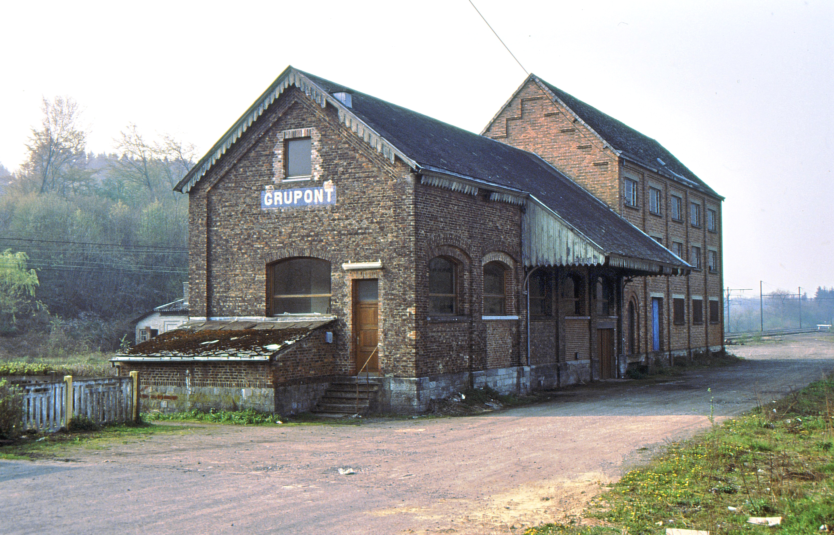 Grupont train station